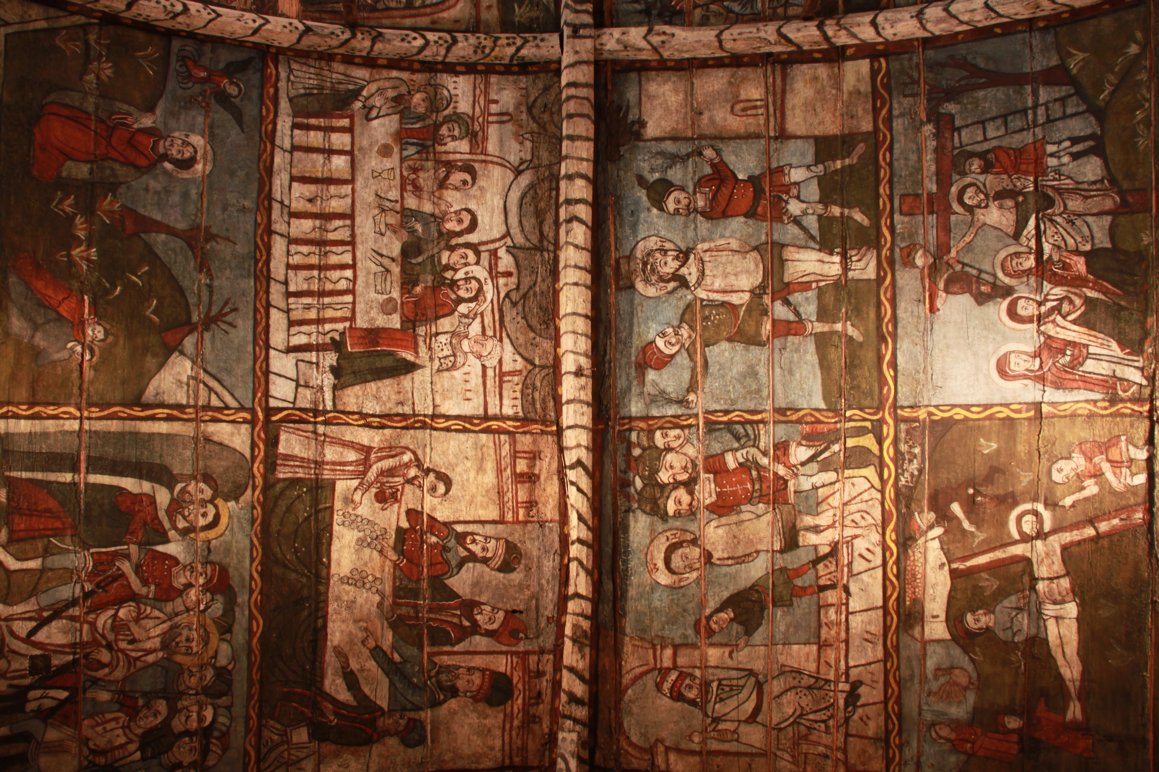 October 2010